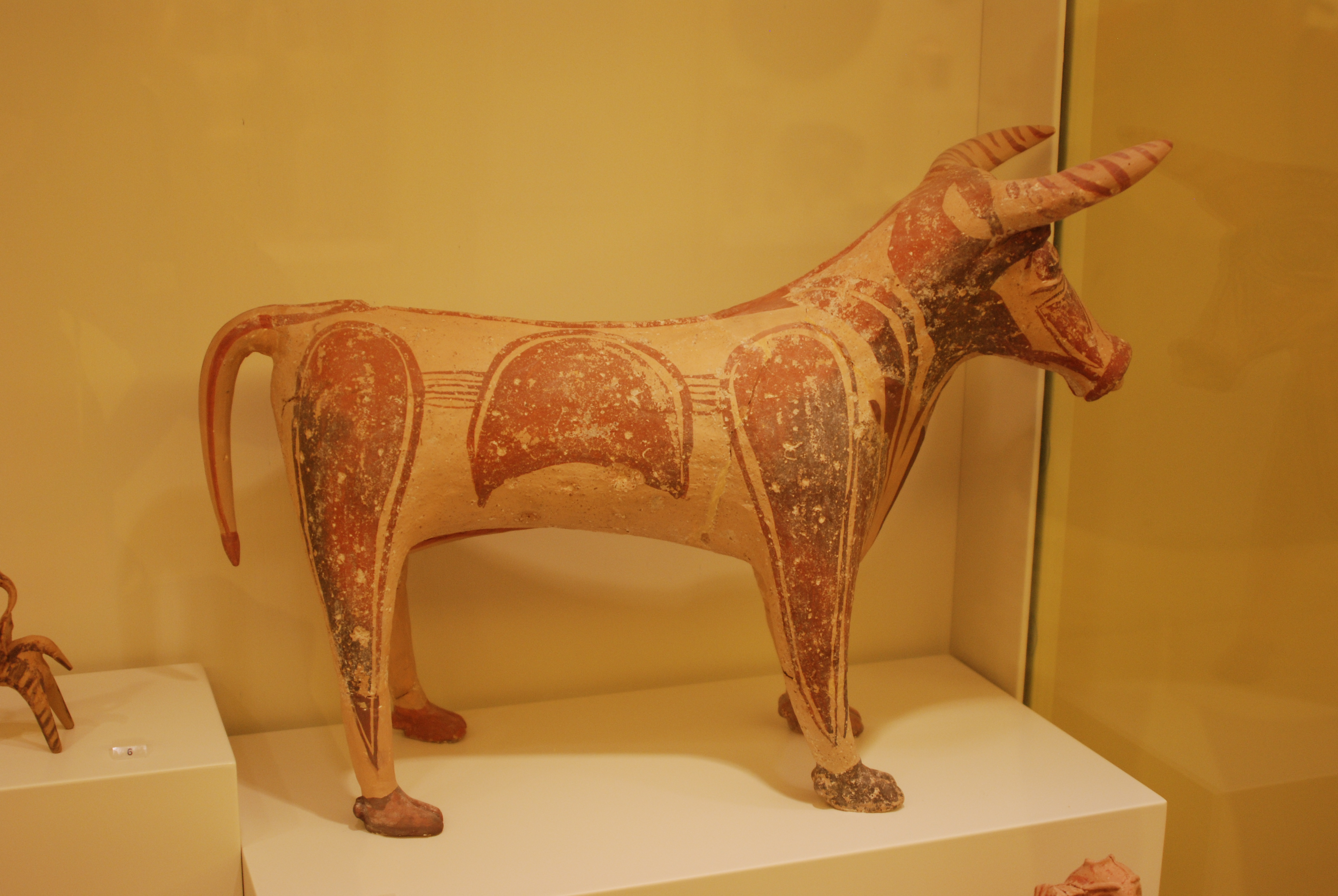 Terracotta figurine of Bull, Heraklion Archaeological Museum.